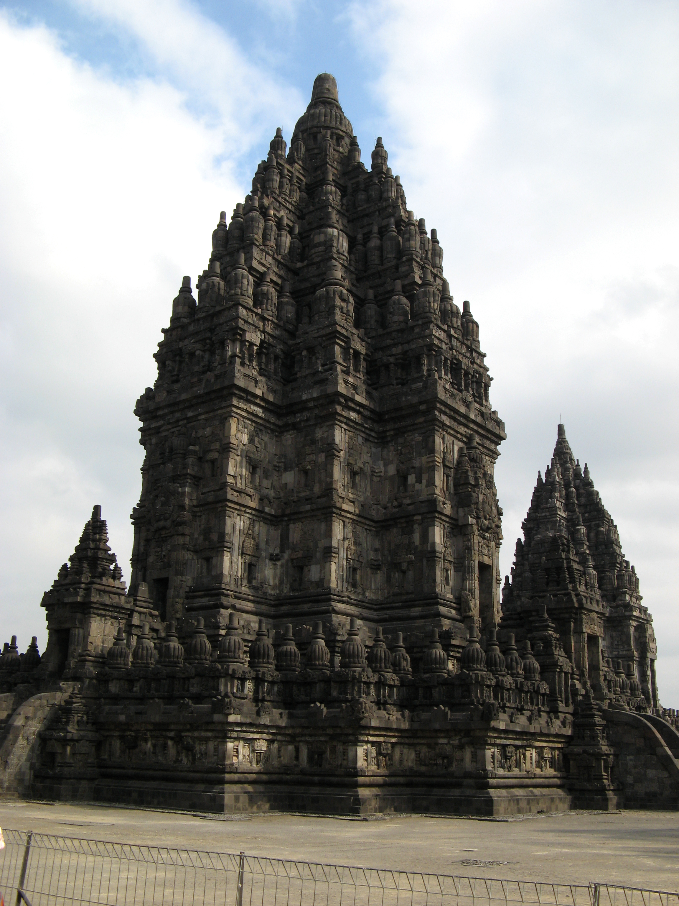 The great temple of Shiva at Prambanan is the largest and principal temple at that complex; the Sanjayas of Mataram were primarily Shiva worshipers, although they also paid their respects to the other gods (Brahma, Vishnu) of the Trimurti.